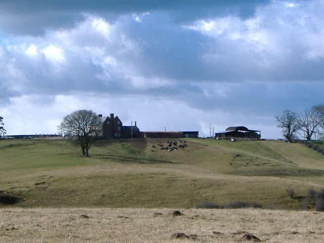 Wych Brook Valley. View across the valley of Wych Brook on bearing of 255 deg from Wigland footpath 8, just south of its junction with footpath 5. The foreground is in England (and SJ 4943), beyond the valley is Wales (and SJ 4843) with Pen-y-Bryn Farm on the skyline. Wych Brook itself - invisible in its deep valley in midfield - only the tree tops showing - forms the border between Cheshire and Wales. This undulating terrain is mostly sheep farming country.